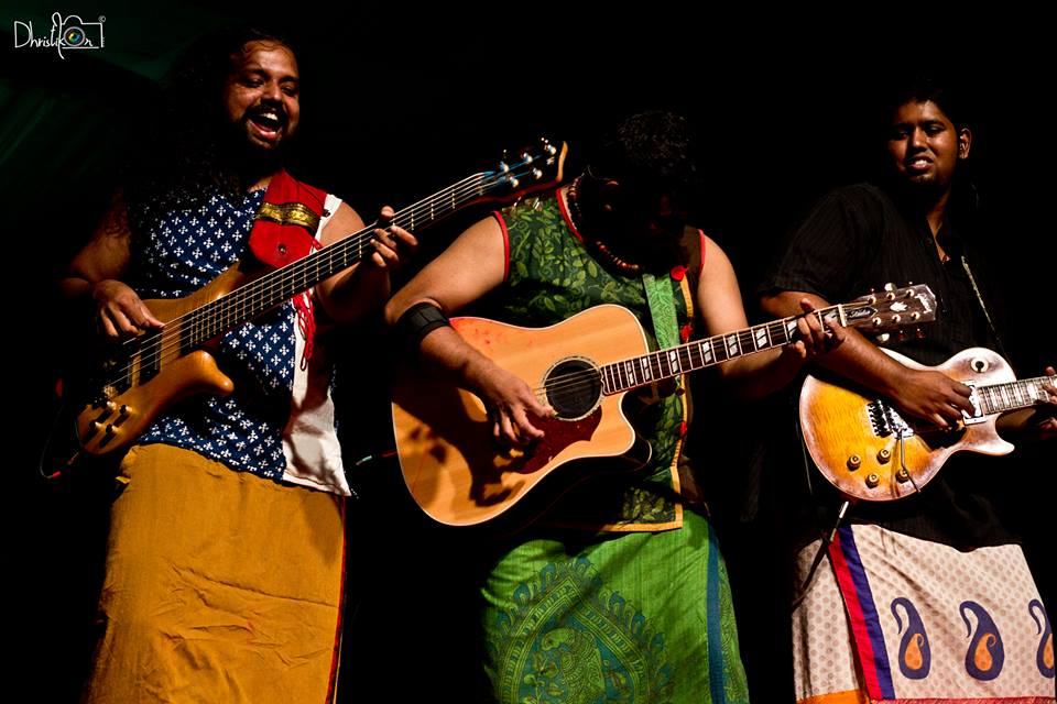 College fest music concert